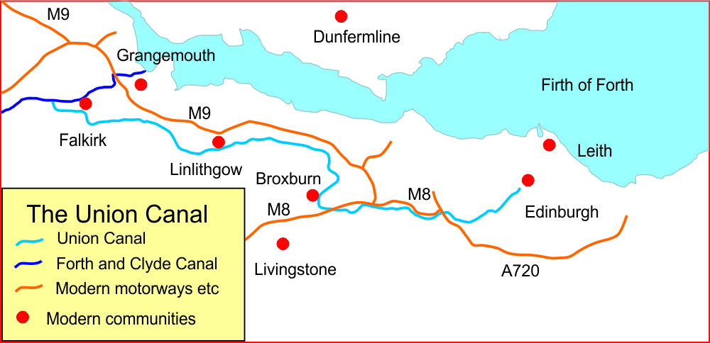 Map of the Union Canal, Scotland against modern landmarks